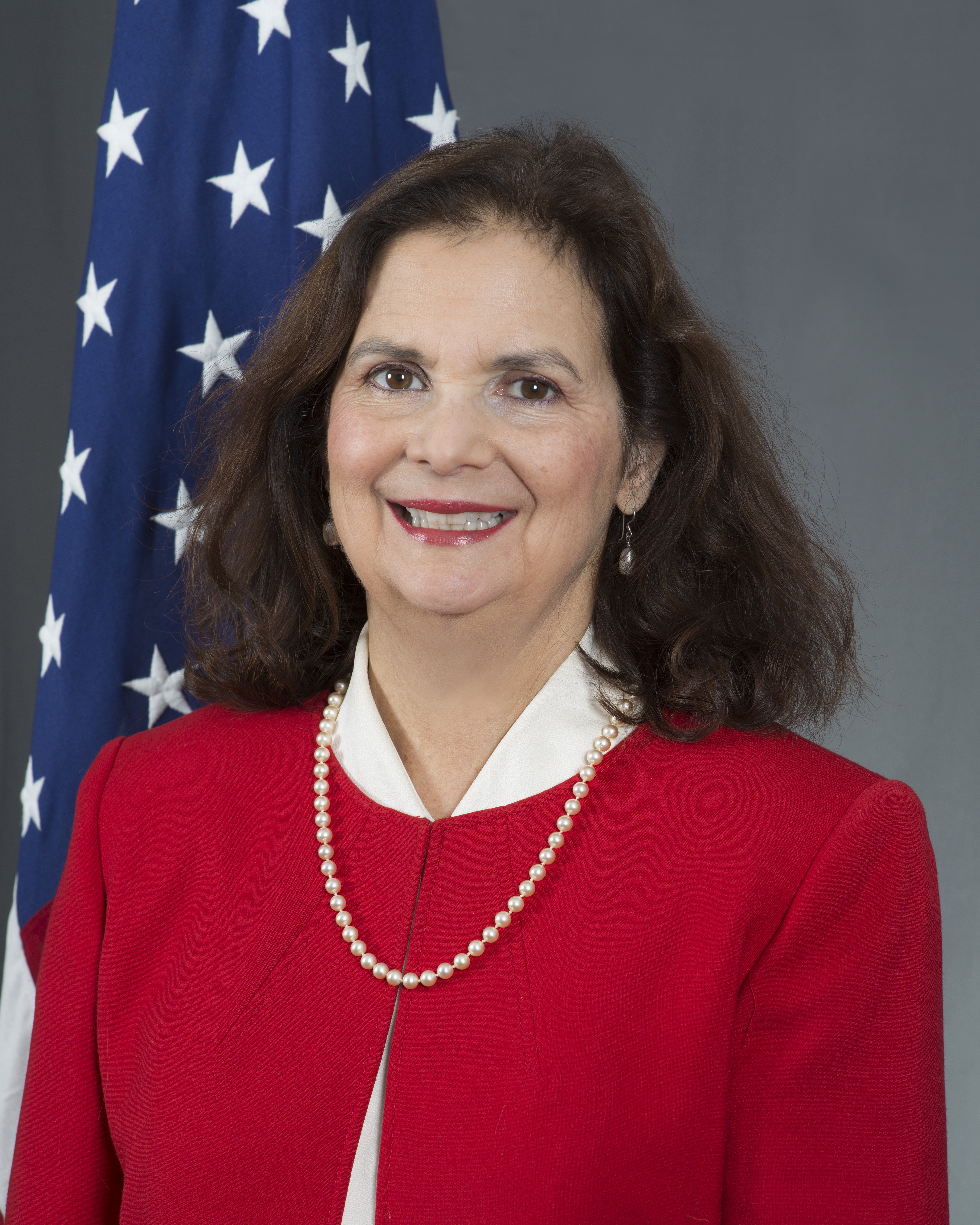 Nina Maria Fite, United States Ambassador to Angola during the Trump Presidency